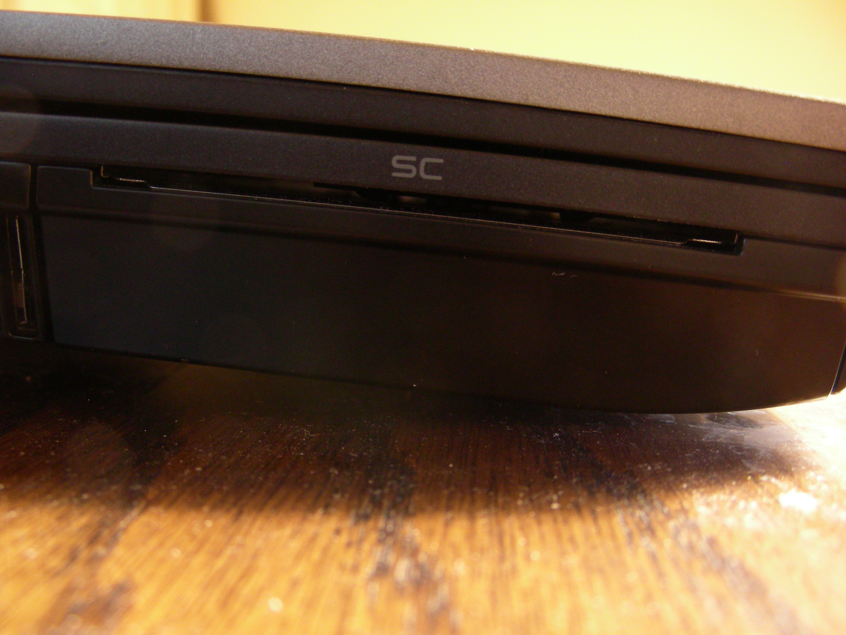 Smart Card reader slot on a Dell e6410 laptop.